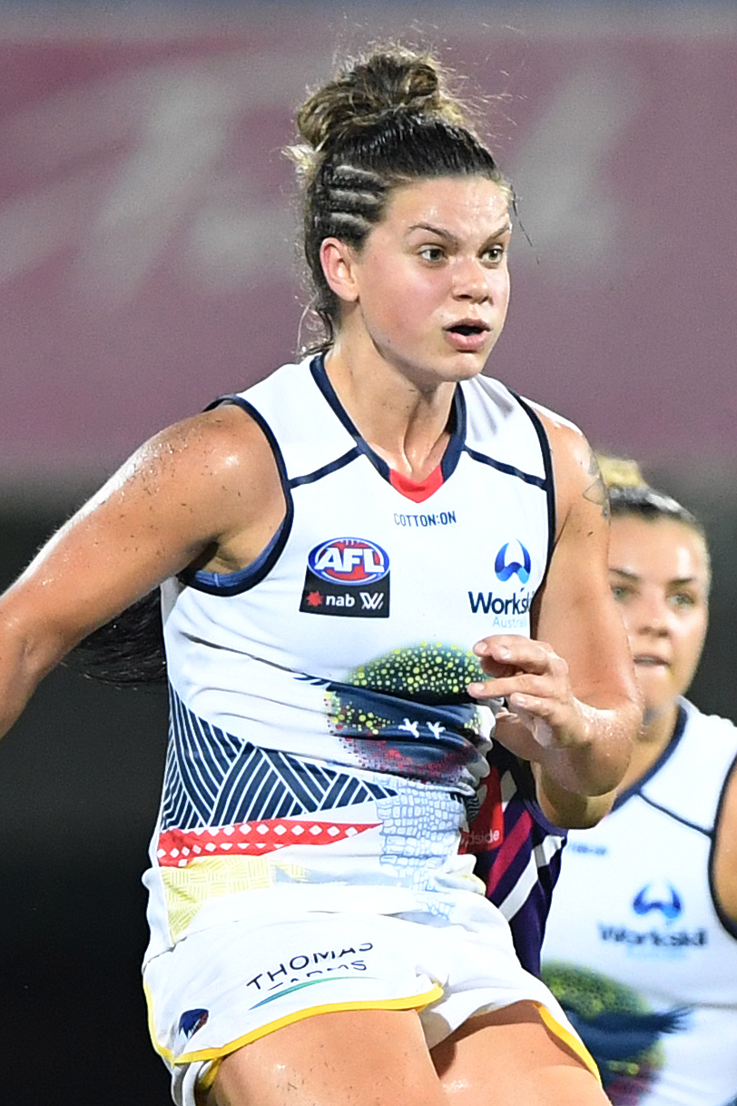 Anne Hatchard of Adelaide during the 2019 AFL Women's practice match between the Adelaide Football Club and Fremantle Football Club at TIO Stadium on January 19, 2019 in Darwin Australia.